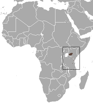 Kilimanjaro Shrew (Crocidura monax) range